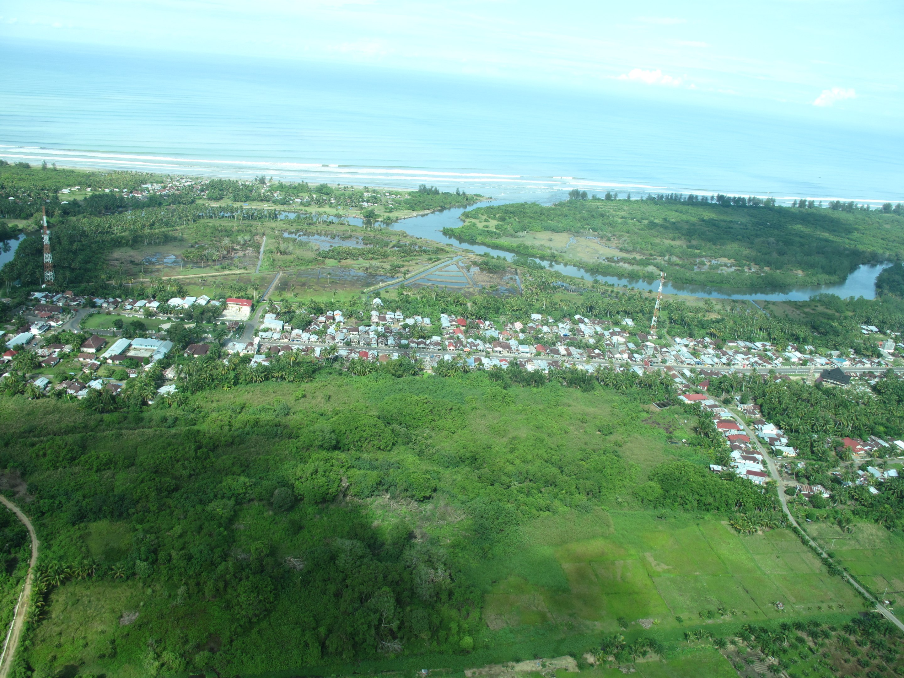 Mukomuko seen from the air. It's not a big place, about 1500 inhabitants.